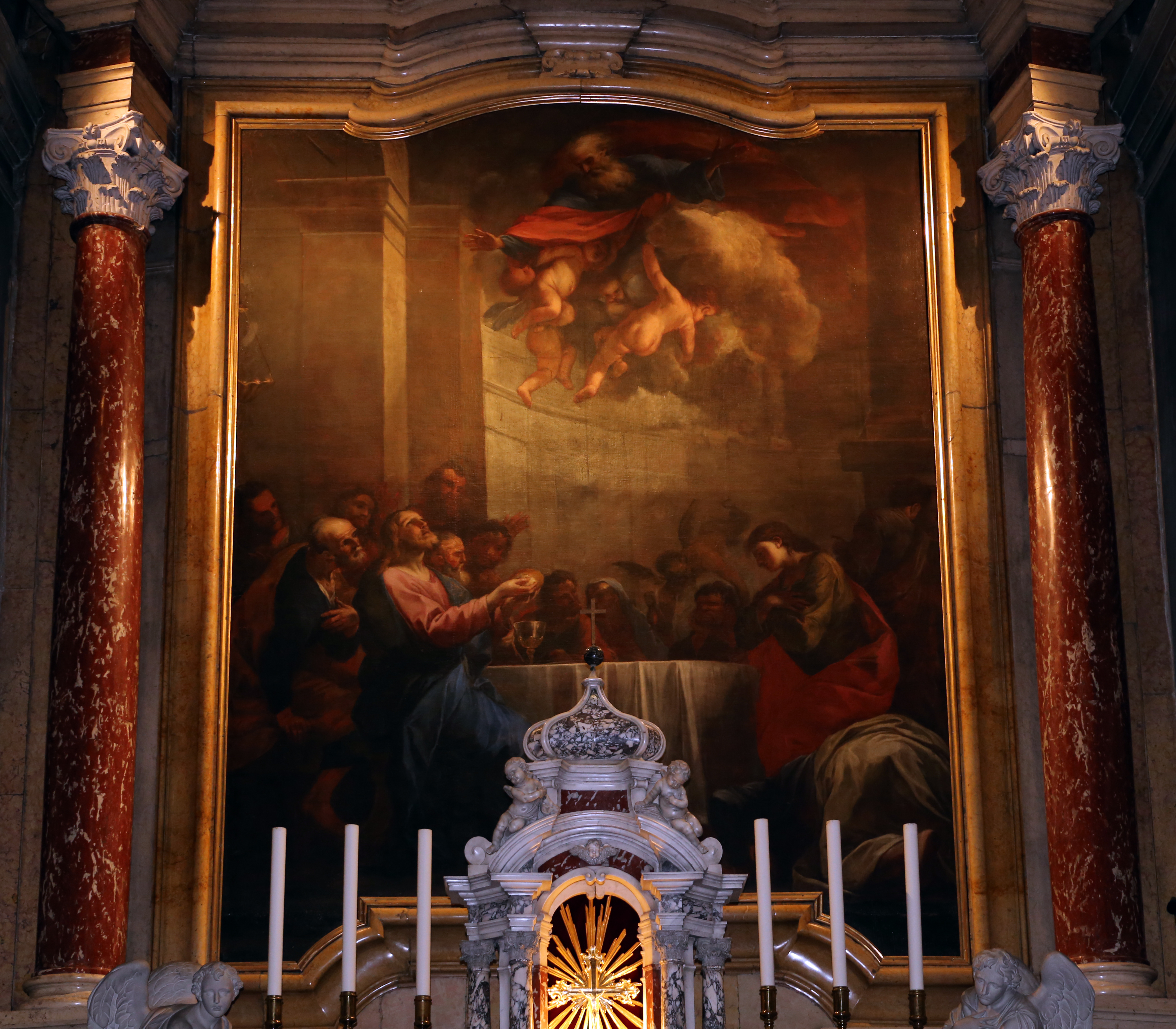 Cathedral (Ferrara) - Interior